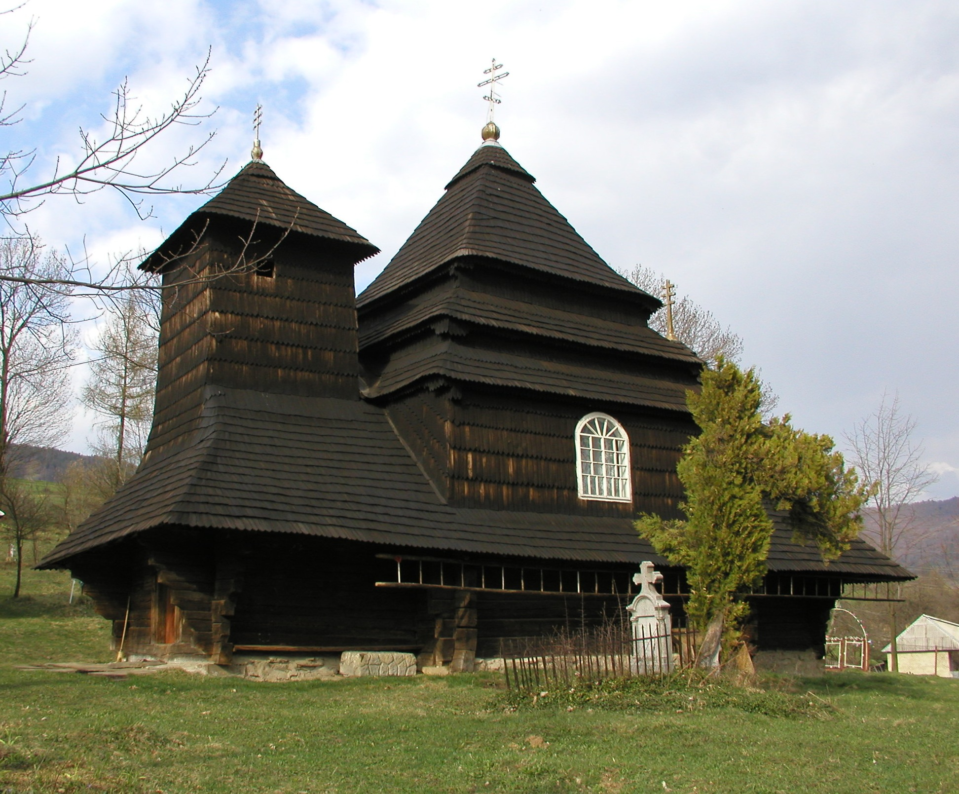 The St. Michael orthodox wooden church in Uzhok